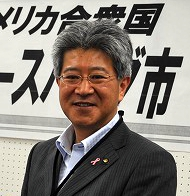 Masatsugu Ōe, Chairman of the Ihatov Space Action Center, and Masaki Ozawa, Mayor of Ōshū City, received support goods for the victims of Tōhoku earthquake and tsunami from Gaithersburg City on July 13, 2011. (c.f. "米国（平成23年7月27日現在）", 外務省: 「がんばれ日本！ 世界は日本と共にある」（世界各地でのエピソード集）：北米（米国）, Ministry of Foreign Affairs of Japan, July 27, 2011.)